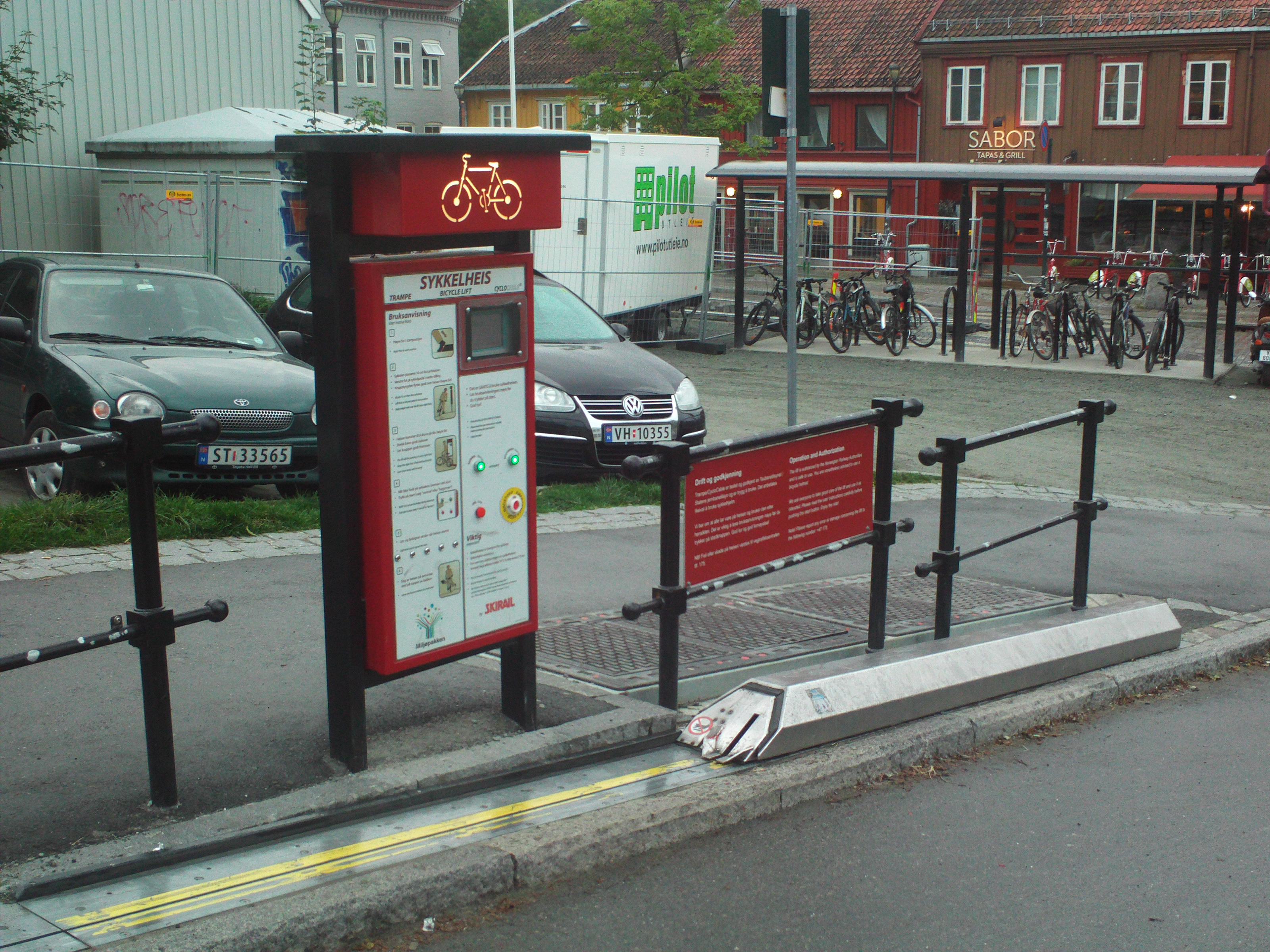 This bike lift can take your bike up the steep Brubakken street.